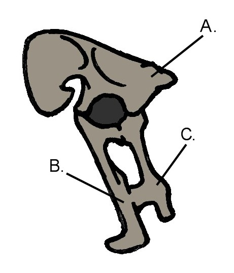 Typical hisbone of a Therizinosauroid dinosaur. Curved, wide Ilium ( A. ), with Pubic ( B. ) and Ischium ( C. ) fused together. Based on the genus Segnosaurus.